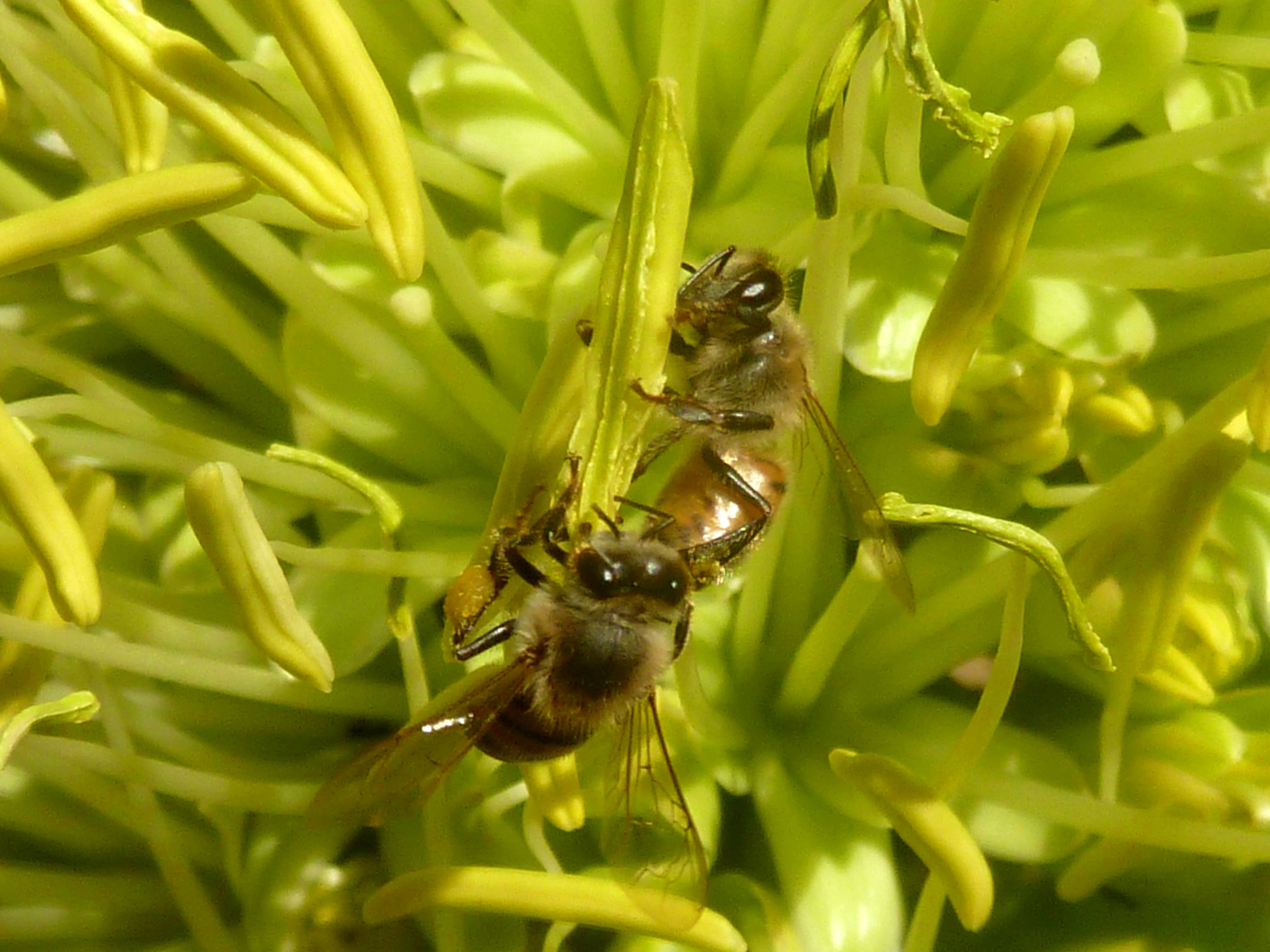 African honey bees feeding on pollen of a blooming Foxtail agave in suburban Piet Retief, Mpumalanga, South Africa